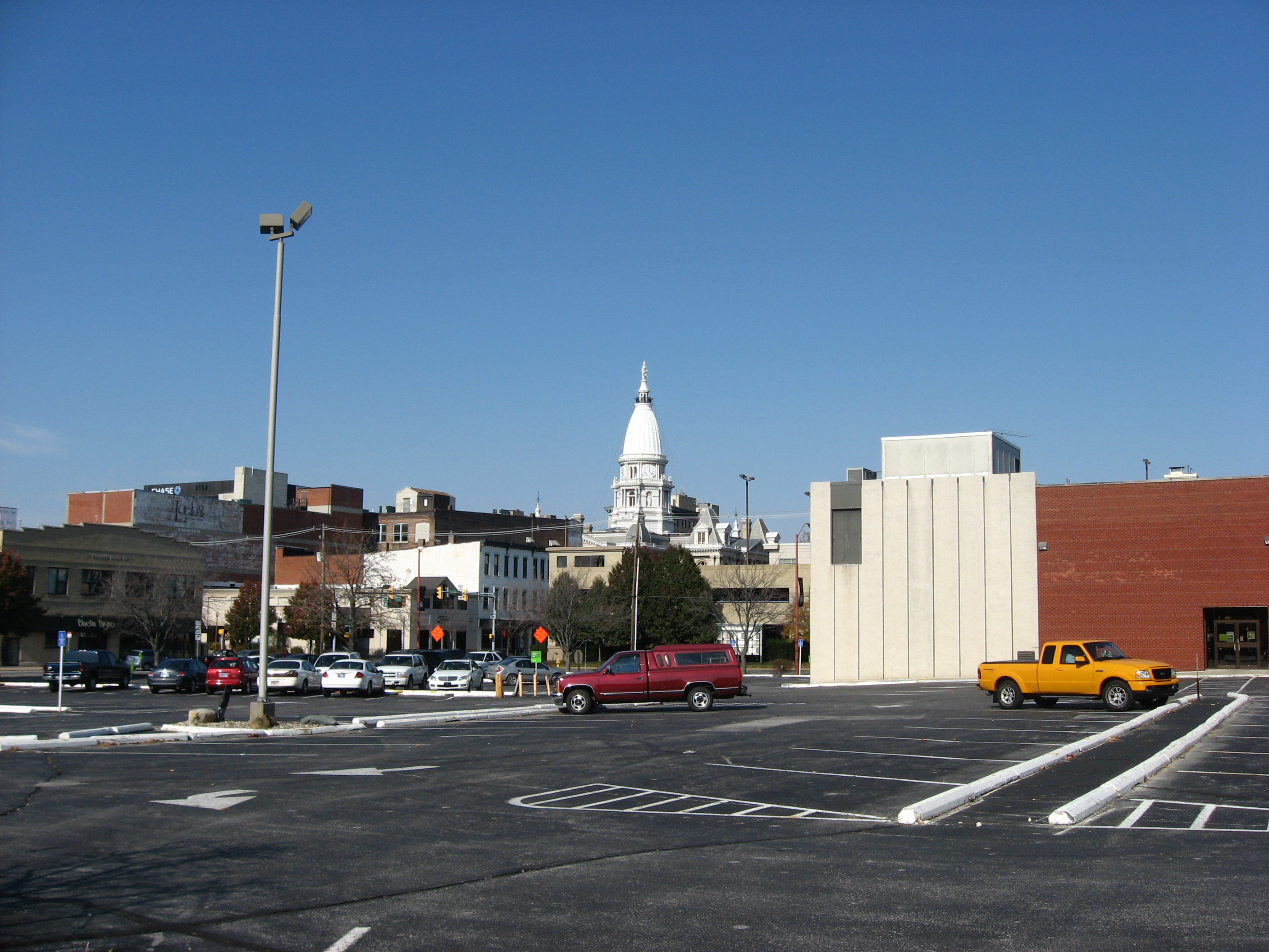 A parking lot along Alabama Street between Fourth and Fifth Streets on the southern side of downtown Lafayette, Indiana, United States.